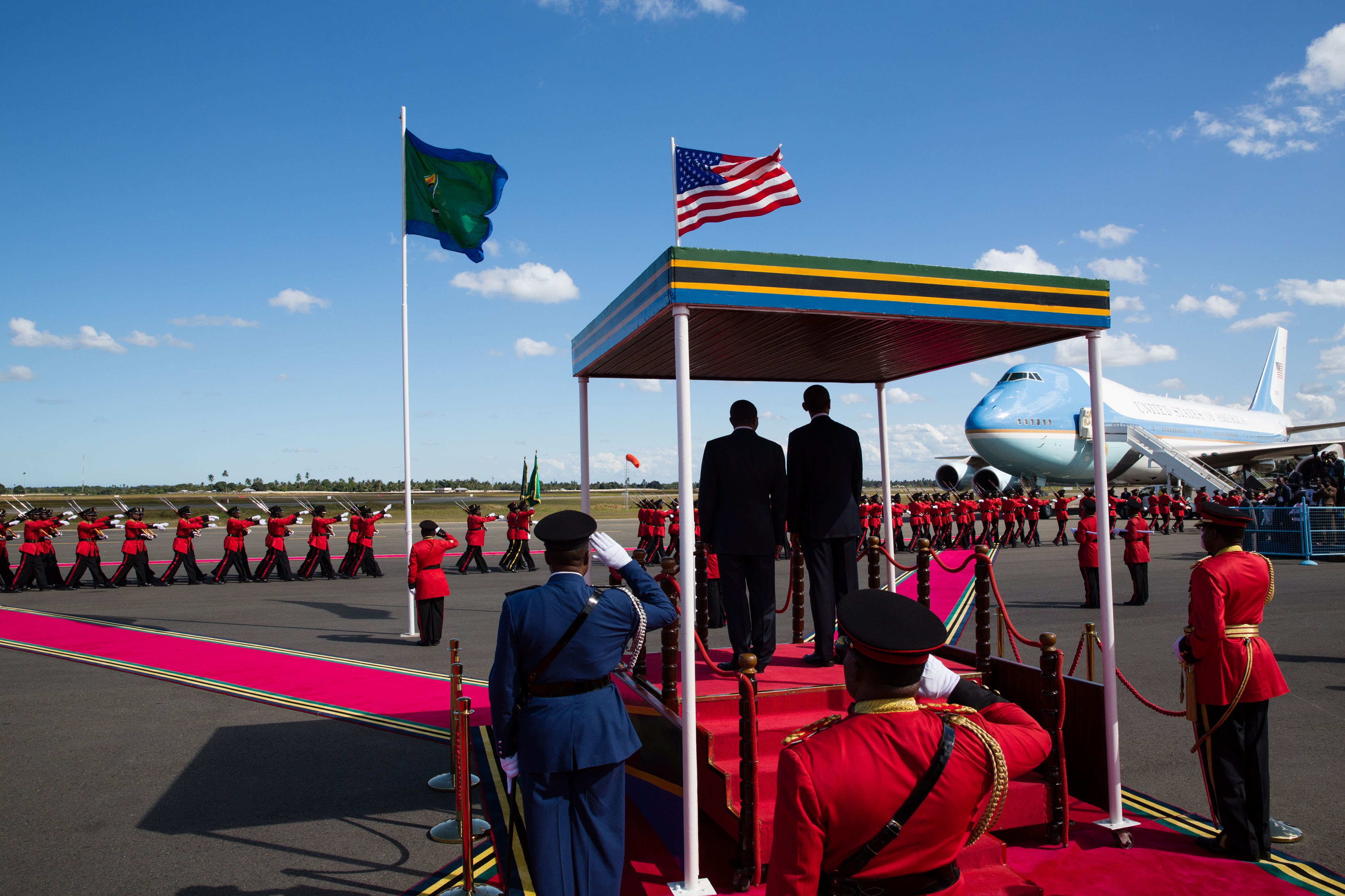 President Barack Obama and President Jakaya Kikwete of Tanzania watch as an honor guard passes during an official arrival ceremony at Julius Nyerere International Airport in Dar es Salaam, Tanzania, July 1, 2013.